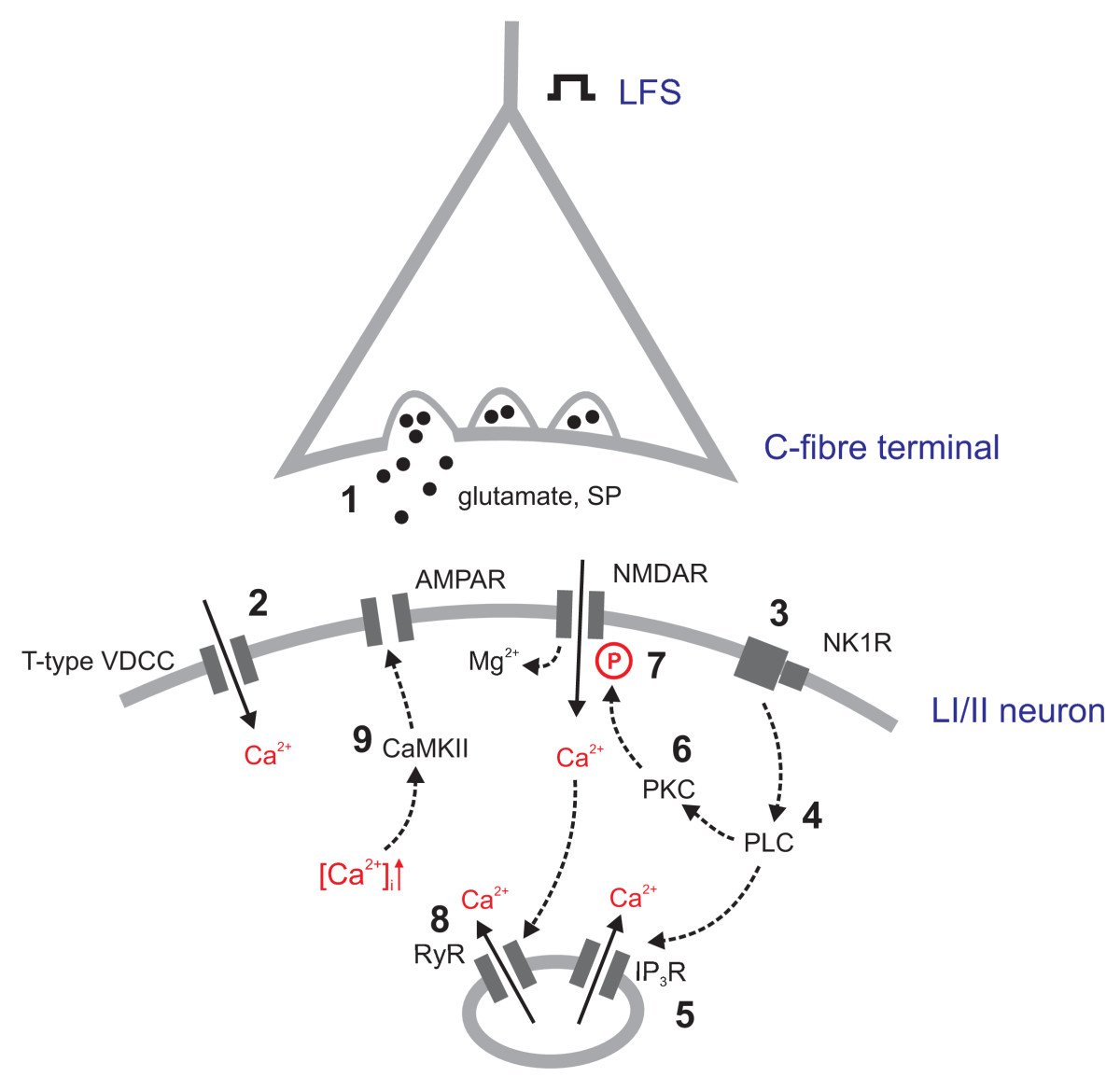 From the article caption (CC-by 2.0):Potential mechanisms of LTP in spinal dorsal horn in vivo. At synapses between C-fibres and laminae I/II second order neurons, LFS triggers the release of the excitatory neurotransmitters glutamate and substance P leading to depolarization of the postsynaptic cell (1). T-type VDCCs are activated (2), leading to Ca2+ influx. The activation of NK1 receptors (3) activates the PLC-pathway (4), triggering the release of Ca2+ from intracellular stores (5) and the activation of PKC (6). This kinase phosphorylates NMDA receptors, thereby loosening their Mg2+ block (7). Ca2+-induced Ca2+ release activates ryanodine receptors, thereby further increasing [Ca2+]i (8). The increased [Ca2+]i is sensed by CaMKII that phosphorylates AMPA receptors, thereby potentiating synaptic strength. LFS: low frequency stimulation; SP: substance P; VDCC: voltage-dependent Ca2+ channel; AMPAR: alpha-amino-3-hydroxy-5-methyl-4-isoxazolepropionic acid receptor; NMDAR: N-methyl-D-aspartate receptor; NK1R: neurokinin receptor 1; PLC: phospholipase C; PKC: protein kinase C; IP3R: inositol 1,4,5-trisphosphate receptor; RyR: ryanodine receptor; CaMKII: Ca2+-calmodulin dependent kinase II